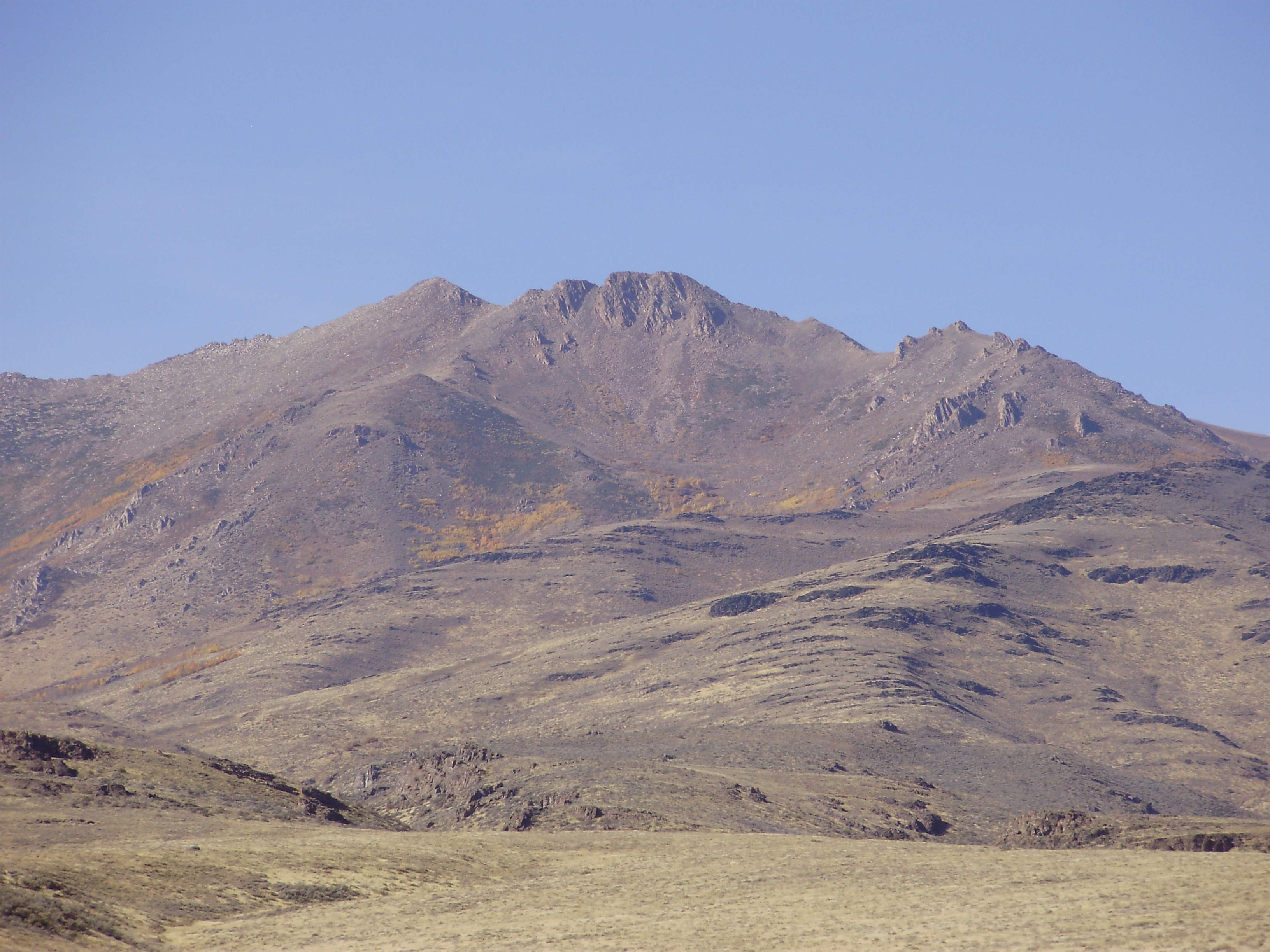 View of Granite Peak from about 5300 feet on Hinkey Summit Road south of Hinkey Summit in Humboldt County, Nevada